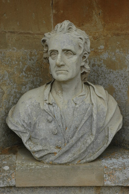 John Locke, Temple of British Worthies, Stowe